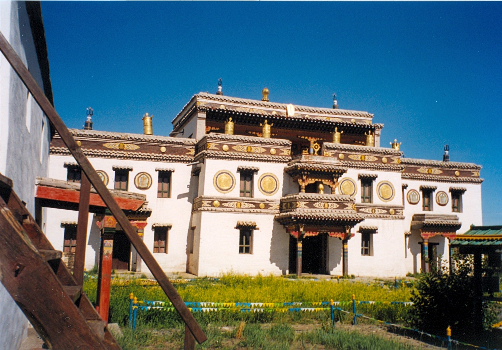 Laviran Temple at Erdene Zuu monastery, Övörhangay Province, Mongolia.